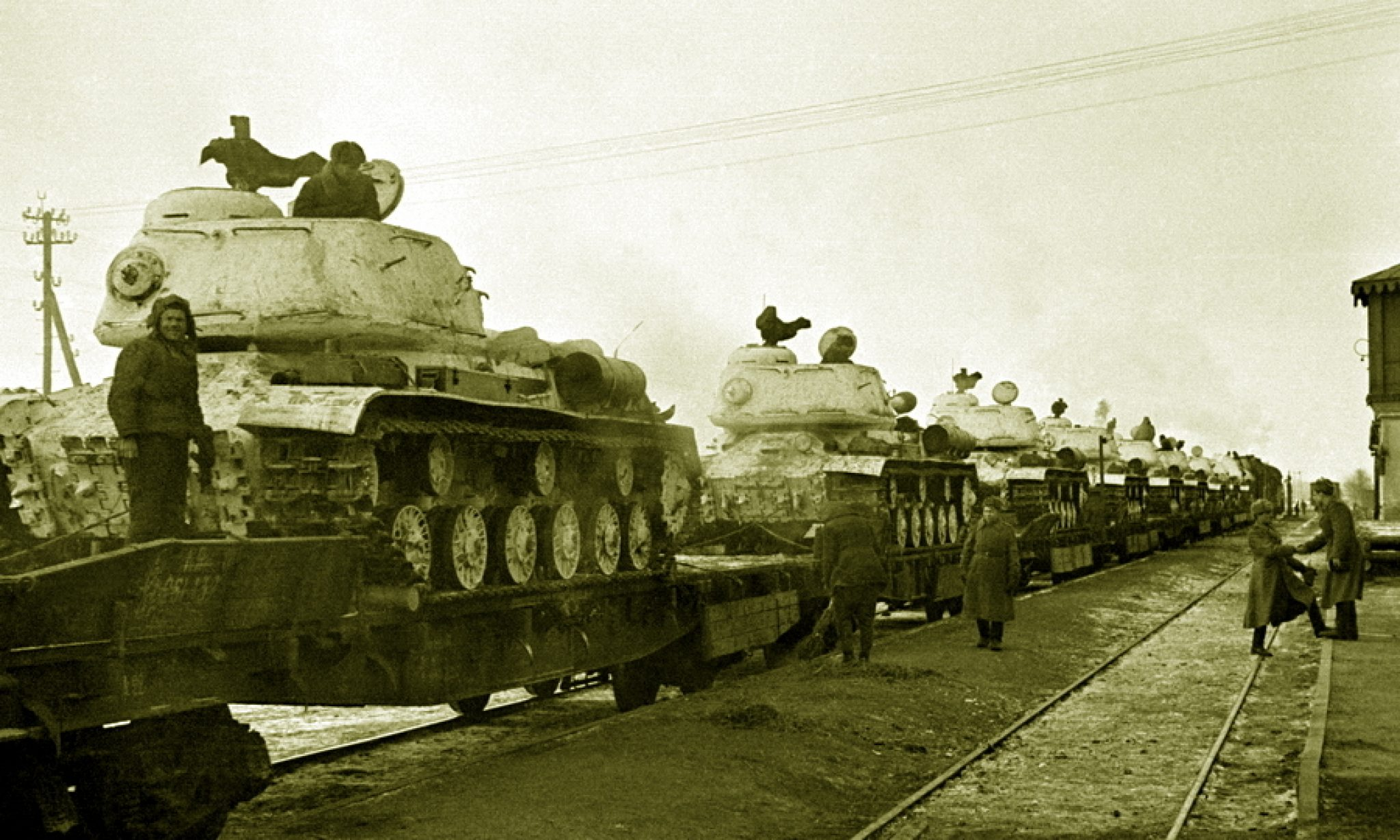 “New armoured vehicles arriving ”. Winter 1945. Eastern Europe. New armoured vehicles arriving. 1944 mod. IS-2